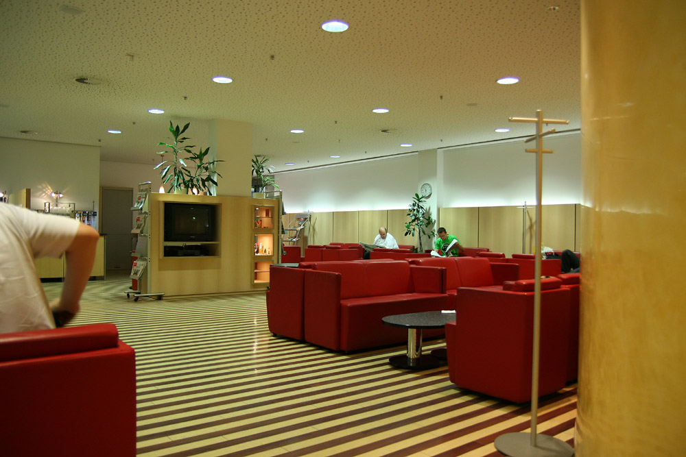 A Deutsche Bahn lounge at Munich main railway station